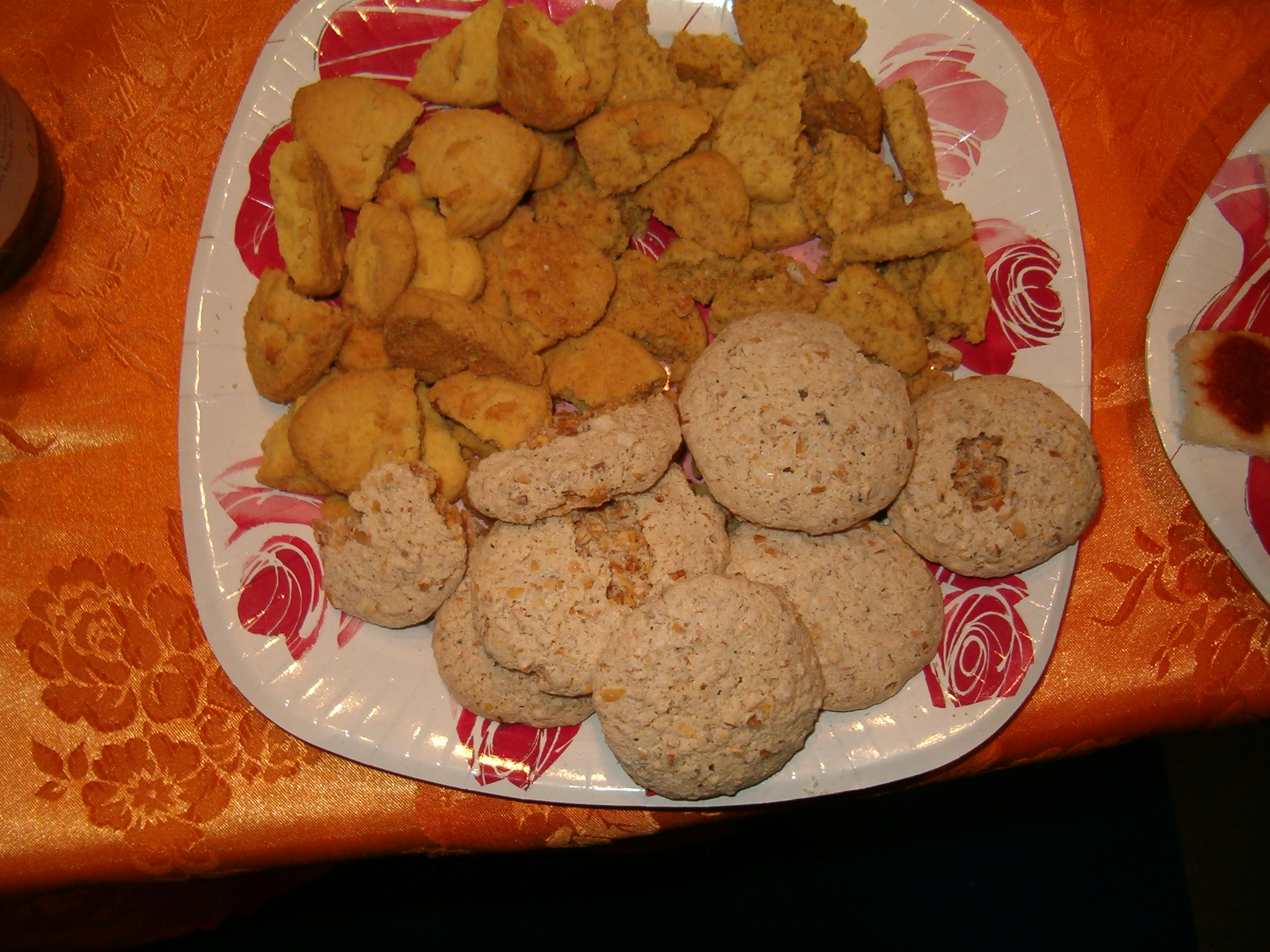 italian food